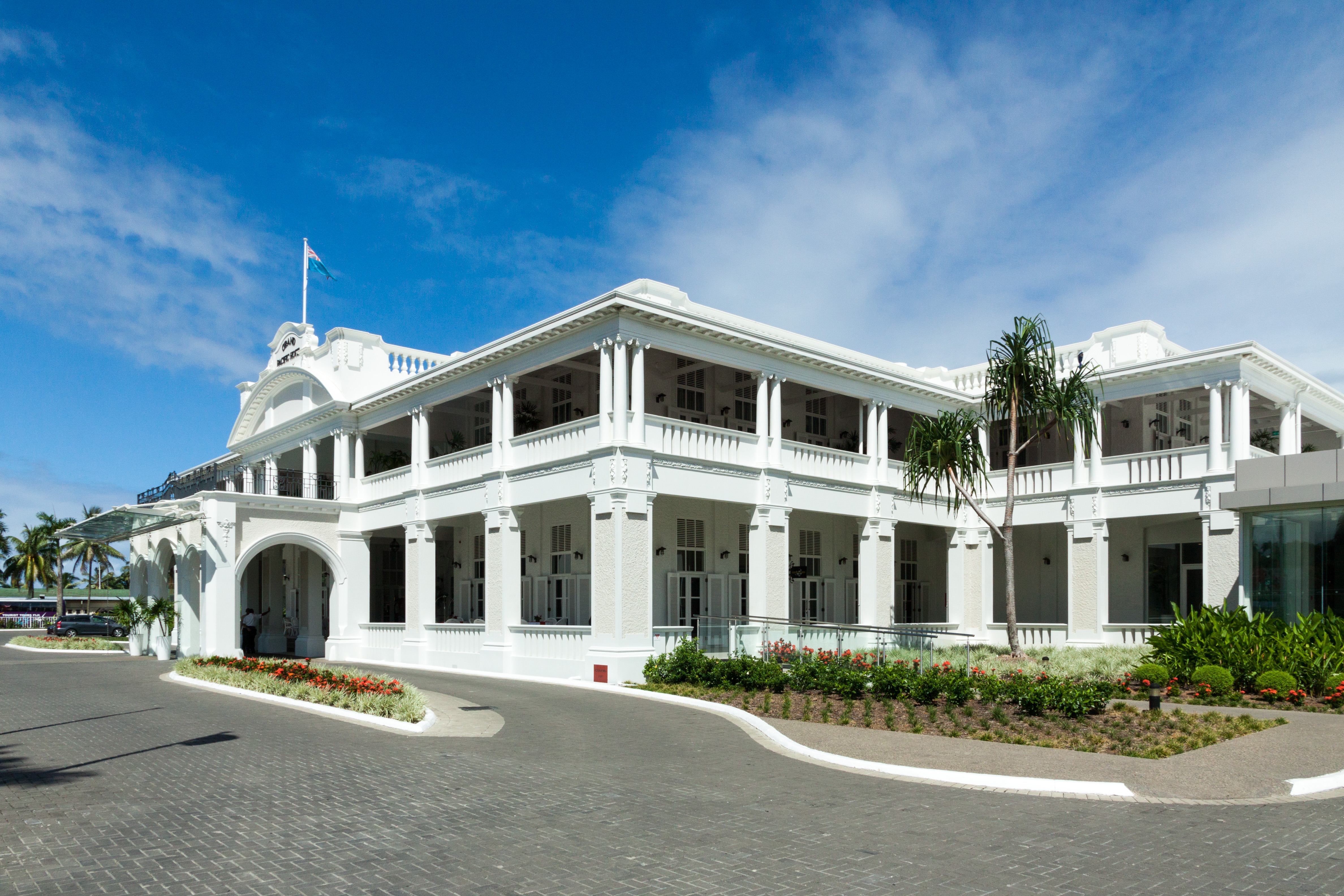 The Grand Pacific Hotel (Suva)